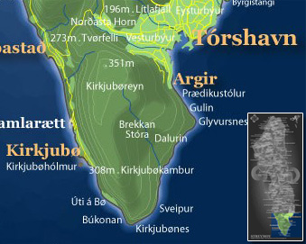 Image created by me from Image:Streymoy map.jpg which is in the public domain because it was released by the copyright holder Postverk Føroya - Philatelic Office.